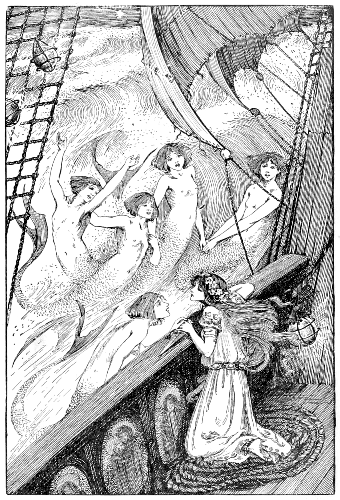 Illustration in a collection of Anderson's Fairy tales.